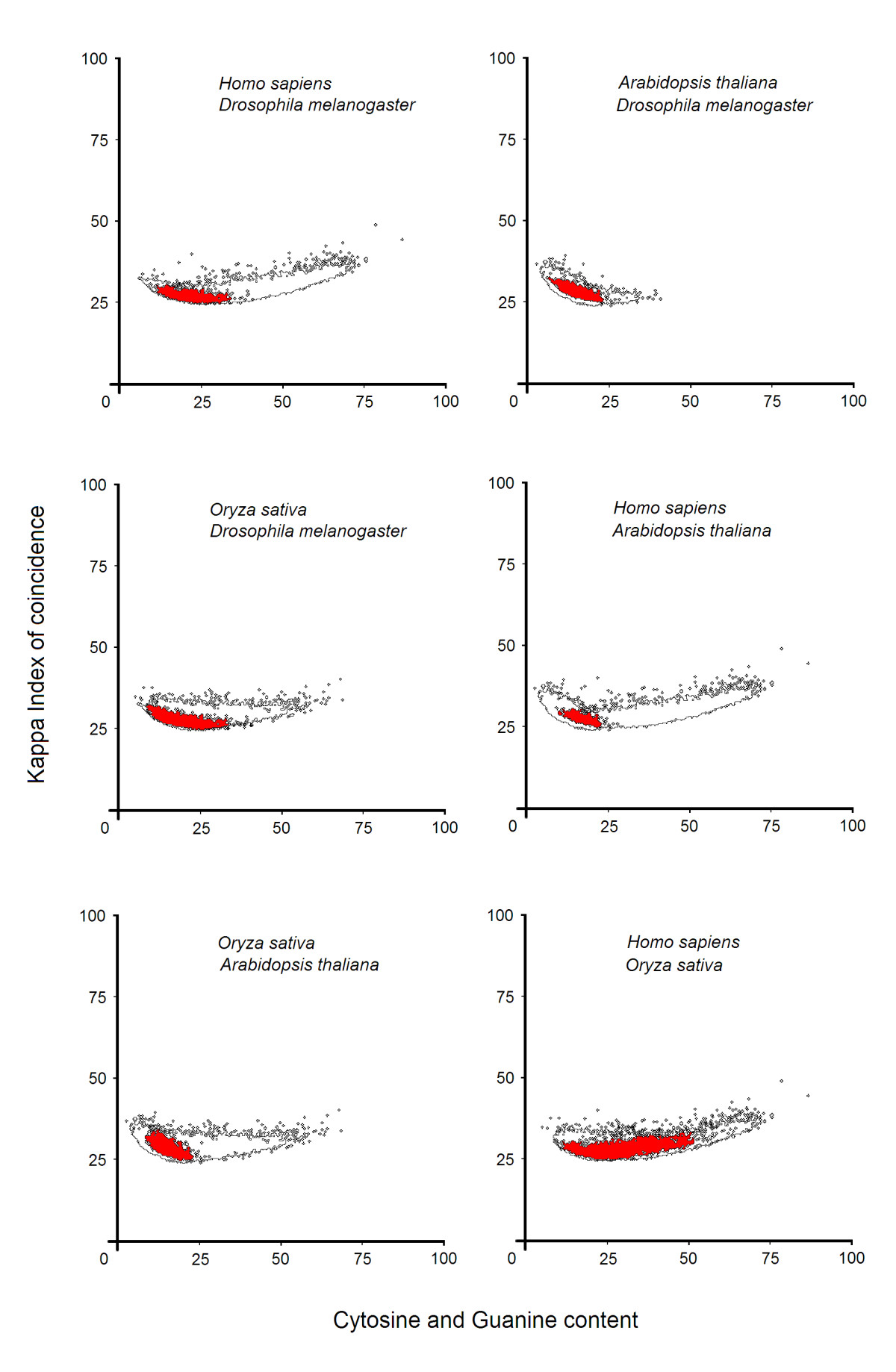 Superposition between promoter distributions from: Homo sapiens, Drosophila melanogaster, Oryza sativa and Arabidopsis thaliana.